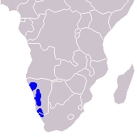 Distribution of Equus zebra hartmannae